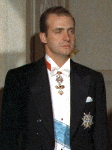 Juan Carlos de Borbón, Prince of Spain in 1971.